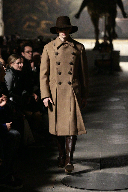 RT resistance